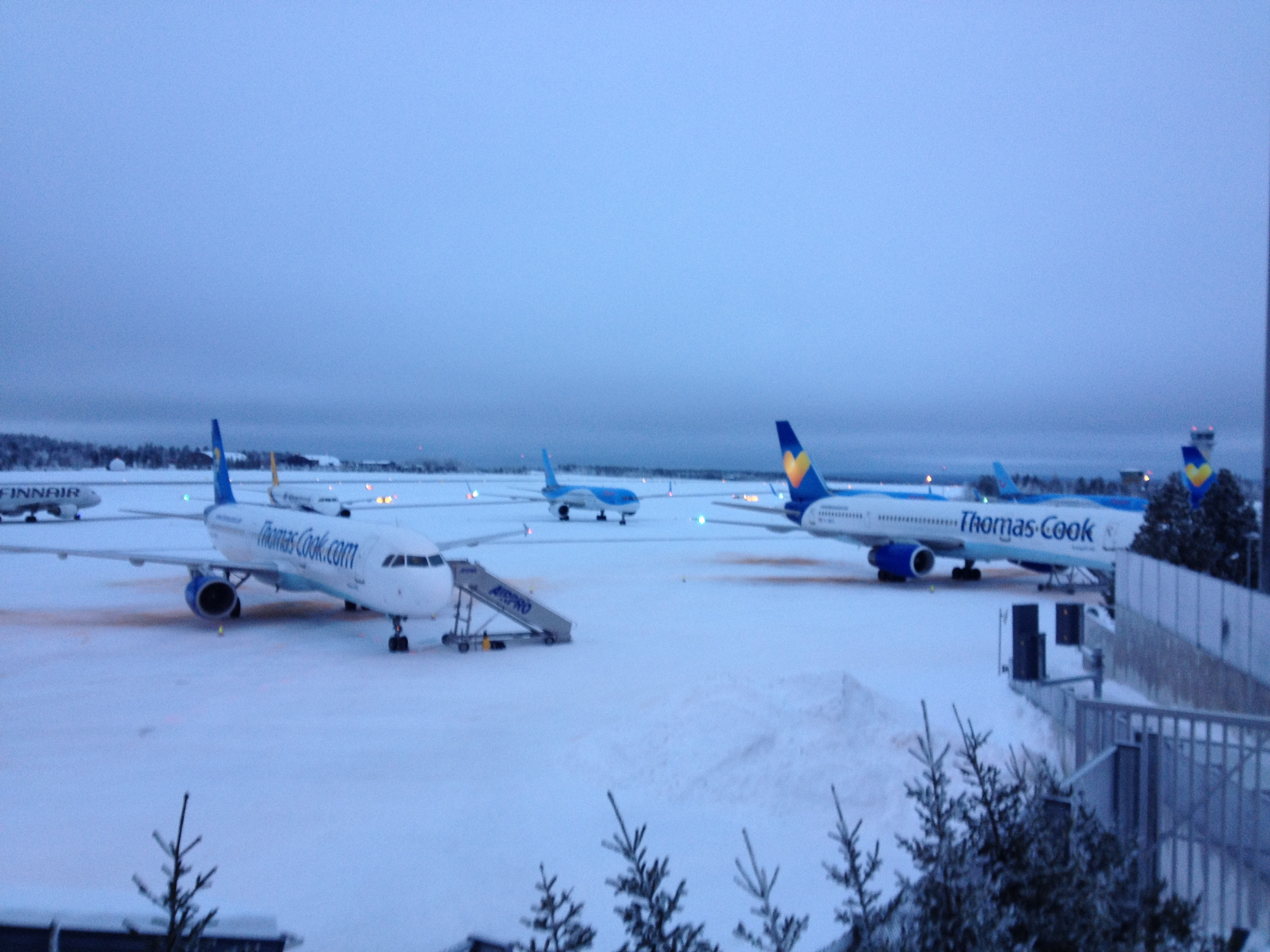 Christmas time in Rovaniemi airport.